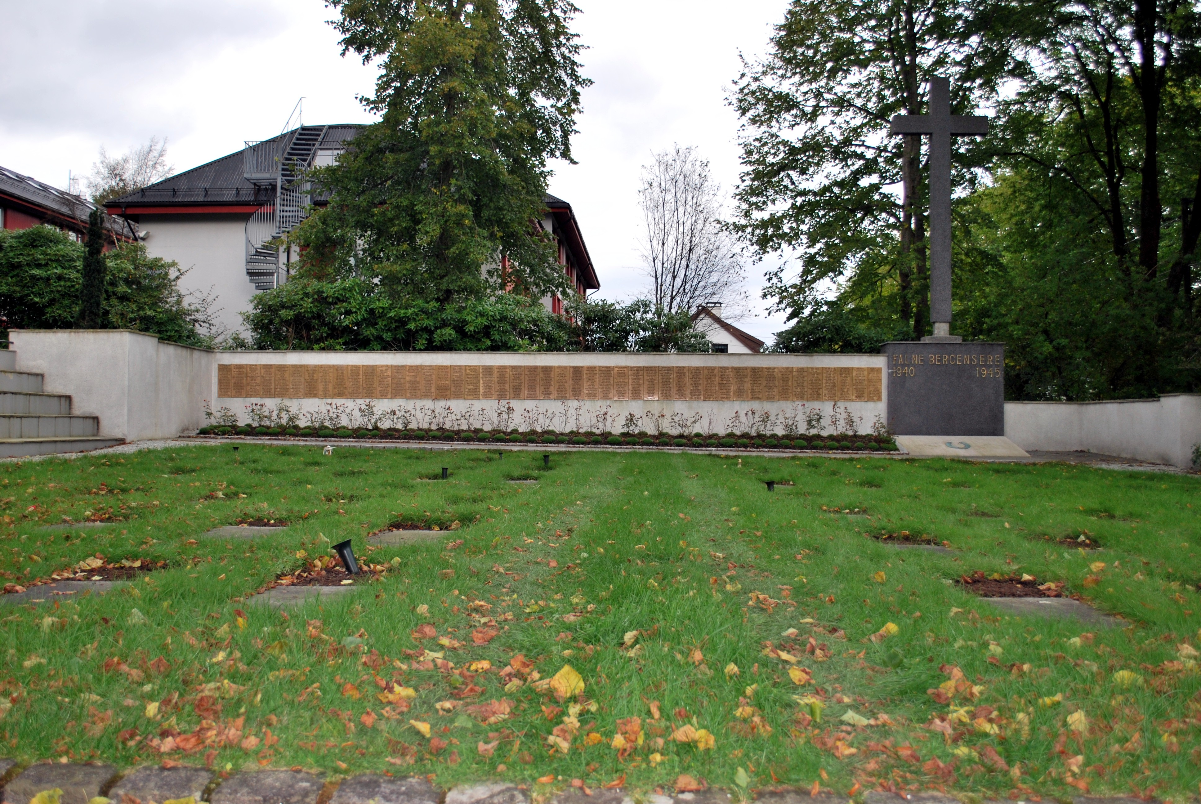 Solheim Æreskirkegård, Bergen. War graves and memorial devoted to people from Bergen who fell in the Second World War.